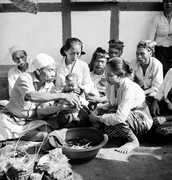 Ceremonial bathing of a baby by a Balinese priest. This ceremony is performed when the child is three months old. The child is being given new clothing and a name